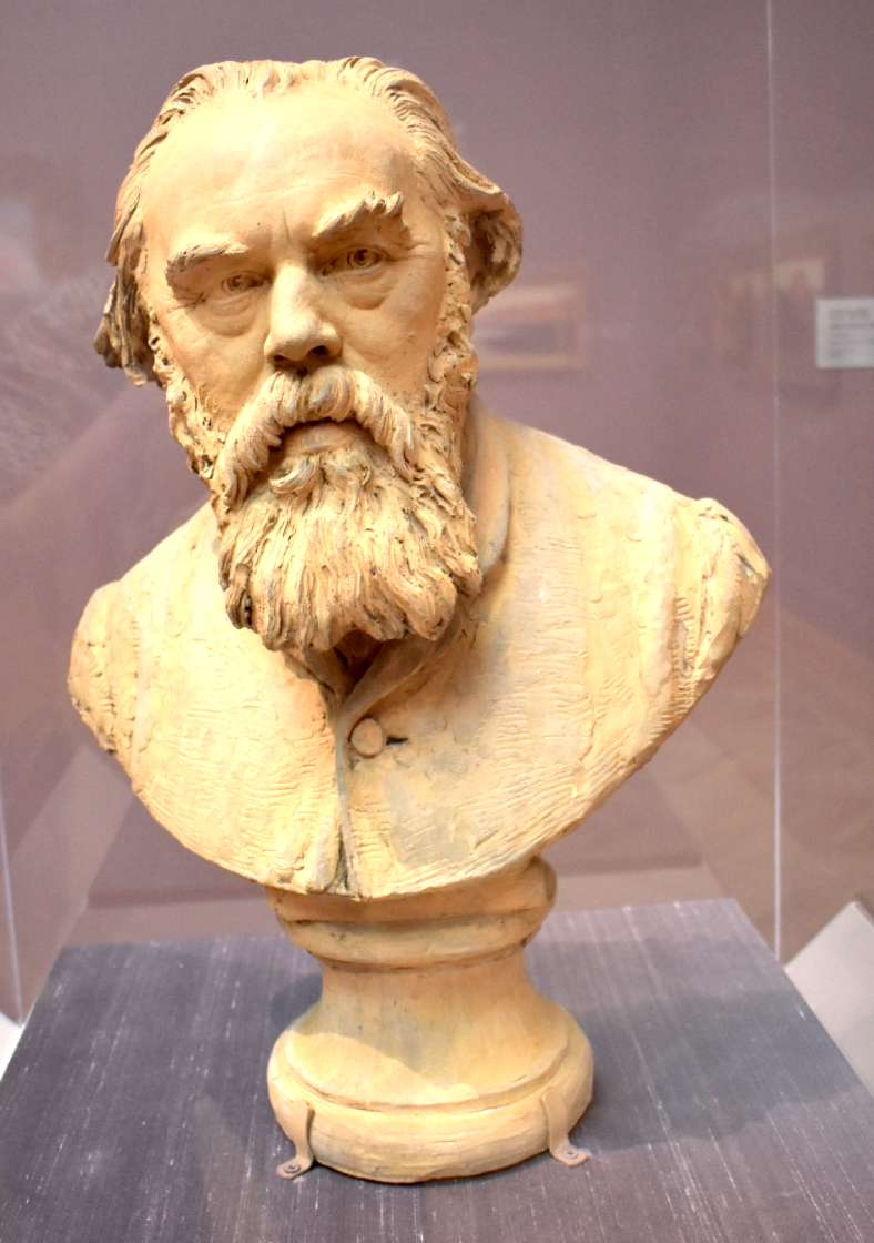 A terracotta bust of Albert Ludovici, by Aimé-Jules Dalou, on display at the Palace of the Legion of Honor in San Francisco. Photo by Jim Heaphy.